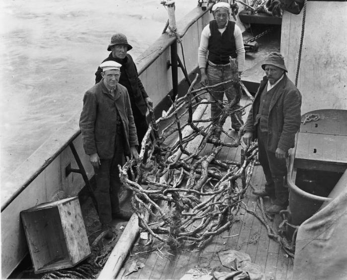 Crew of `Hinemoa' on an expedition to the Auckland Islands showing the frame of a boat used by survivors of the Dundonald shipwreck K Knudson (3rd Mate), M Puhl, R Ellis an J Grattan on board the `Hinemoa' alongside a wooden frame of what had been a canvas boat. The boat was used by survivors of the Dundonald shipwreck.